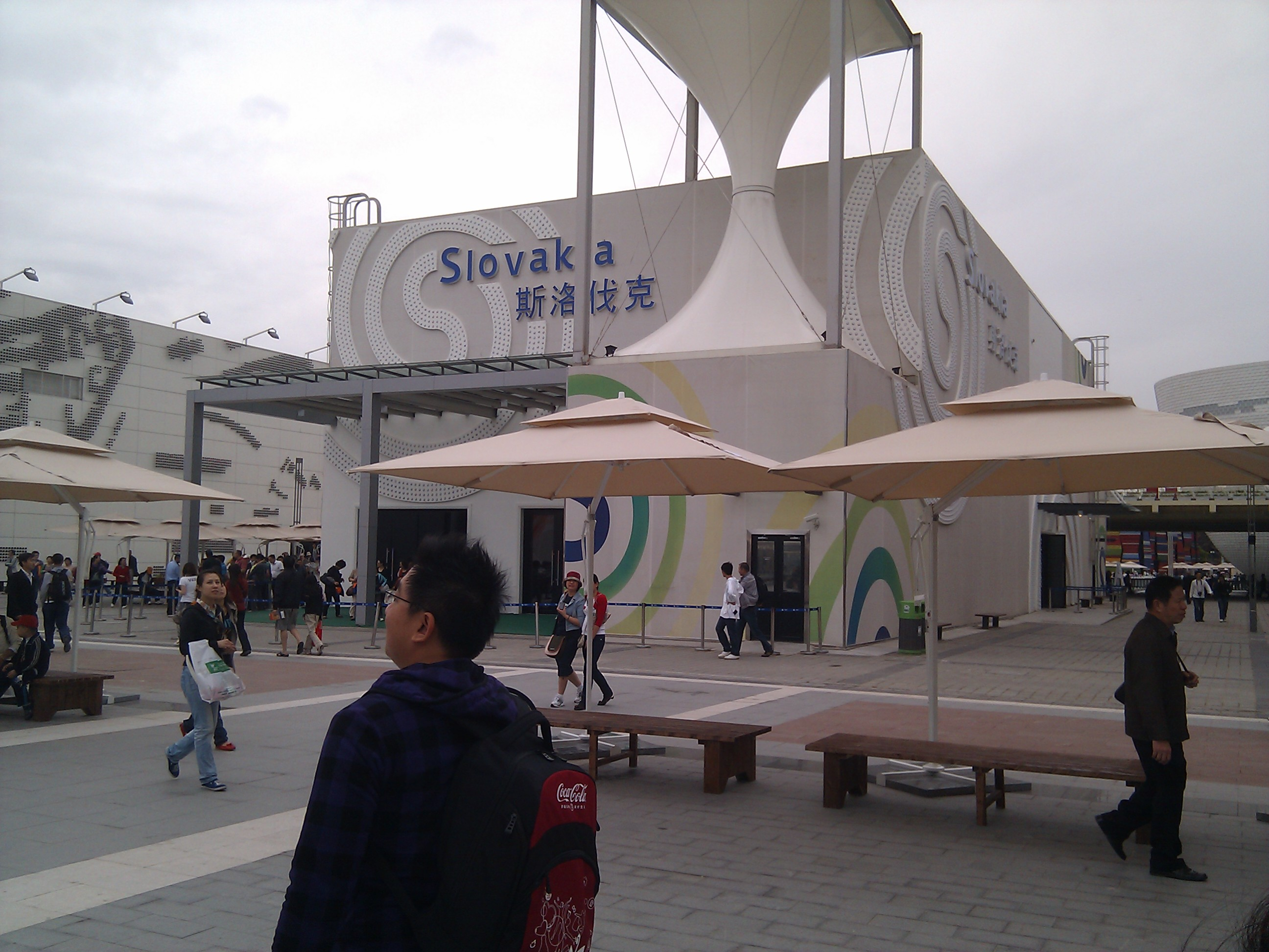 Slovakia Pavilion of Expo 2010